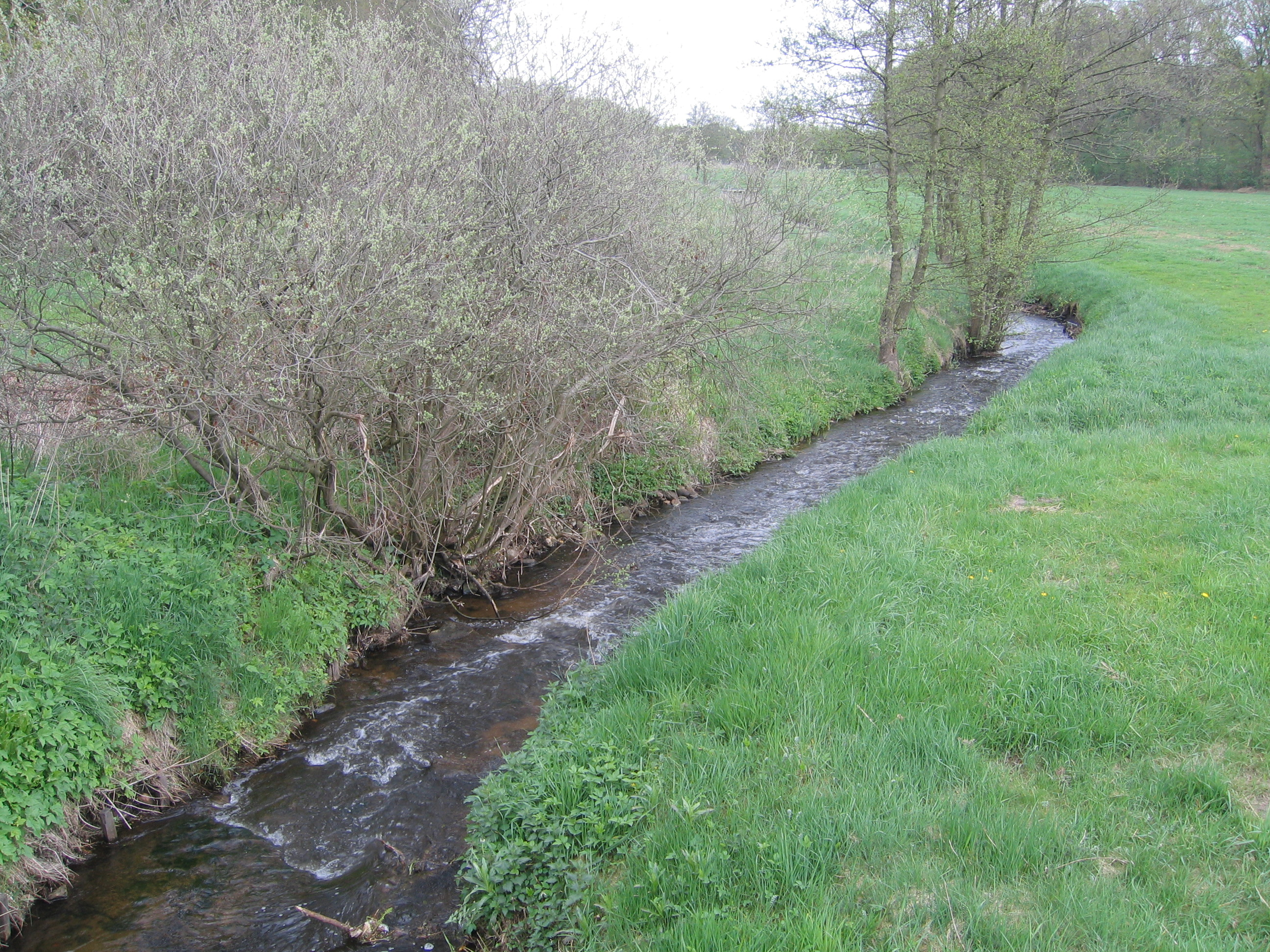 River Brunau near An der Horst, Behringen, Lower Saxony, Germany.